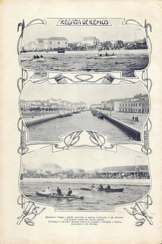 Regata organizada pelo Ginásio Aveirense